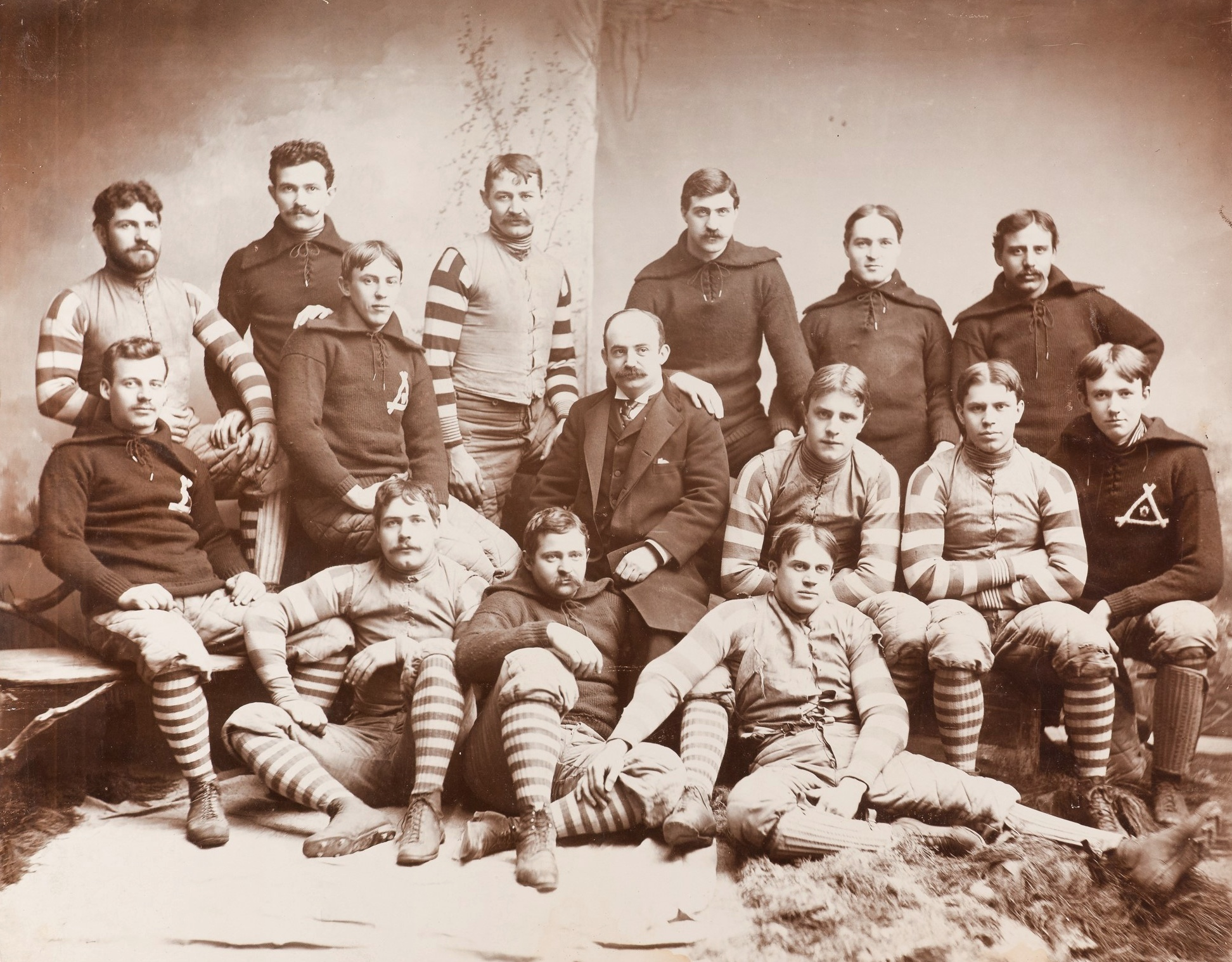 Photograph of the 1893 Pittsburgh Athletic Club football team, one of the very first professional football teams.